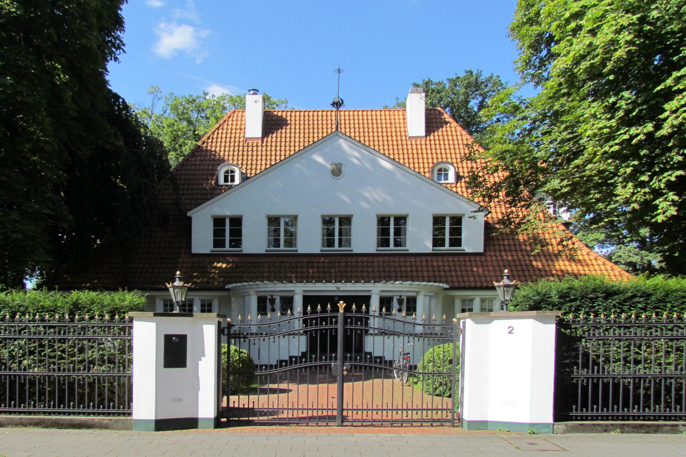 This is a photograph of an architectural monument.